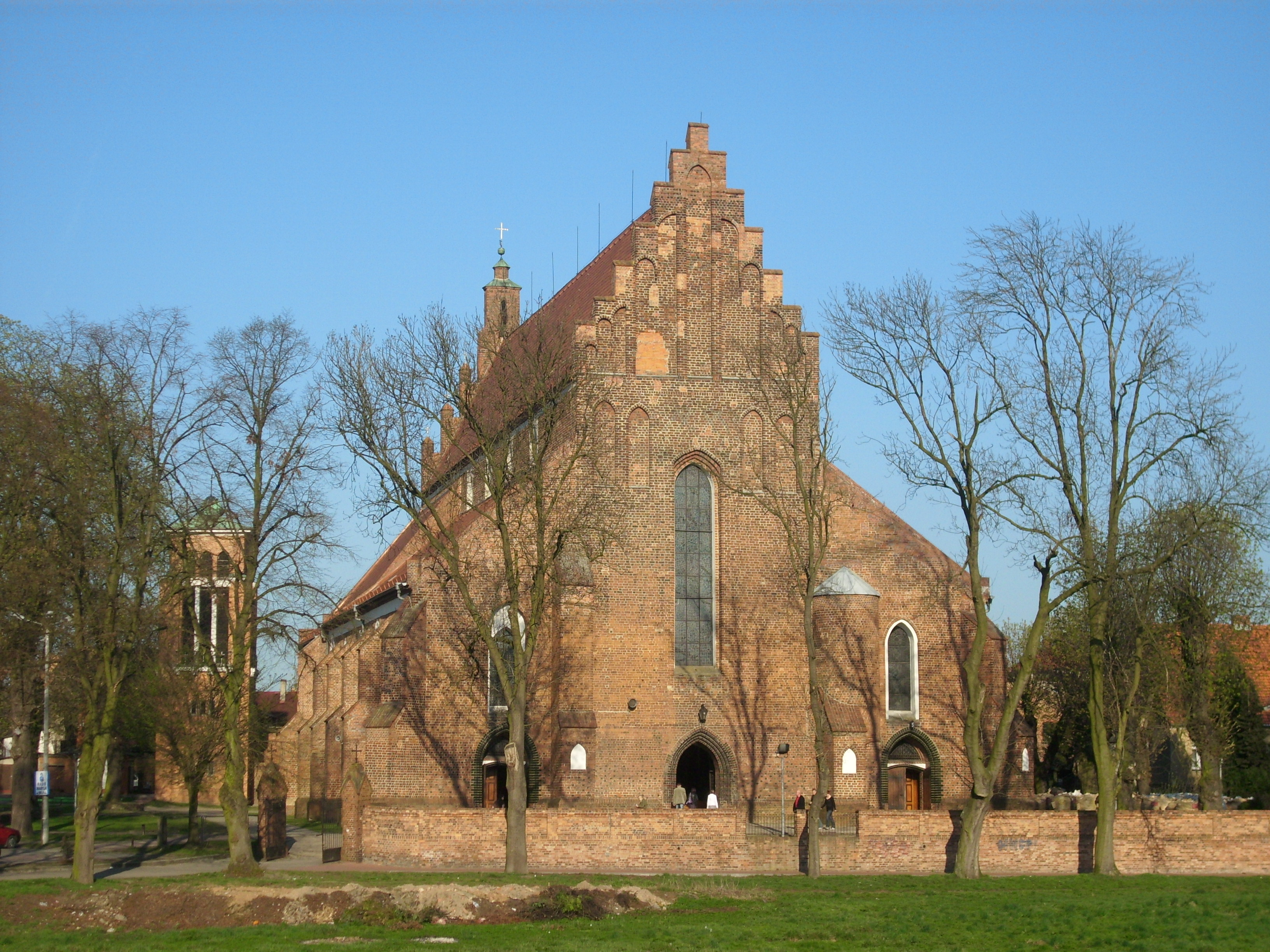 The view on the Collegiate in Szamotuły